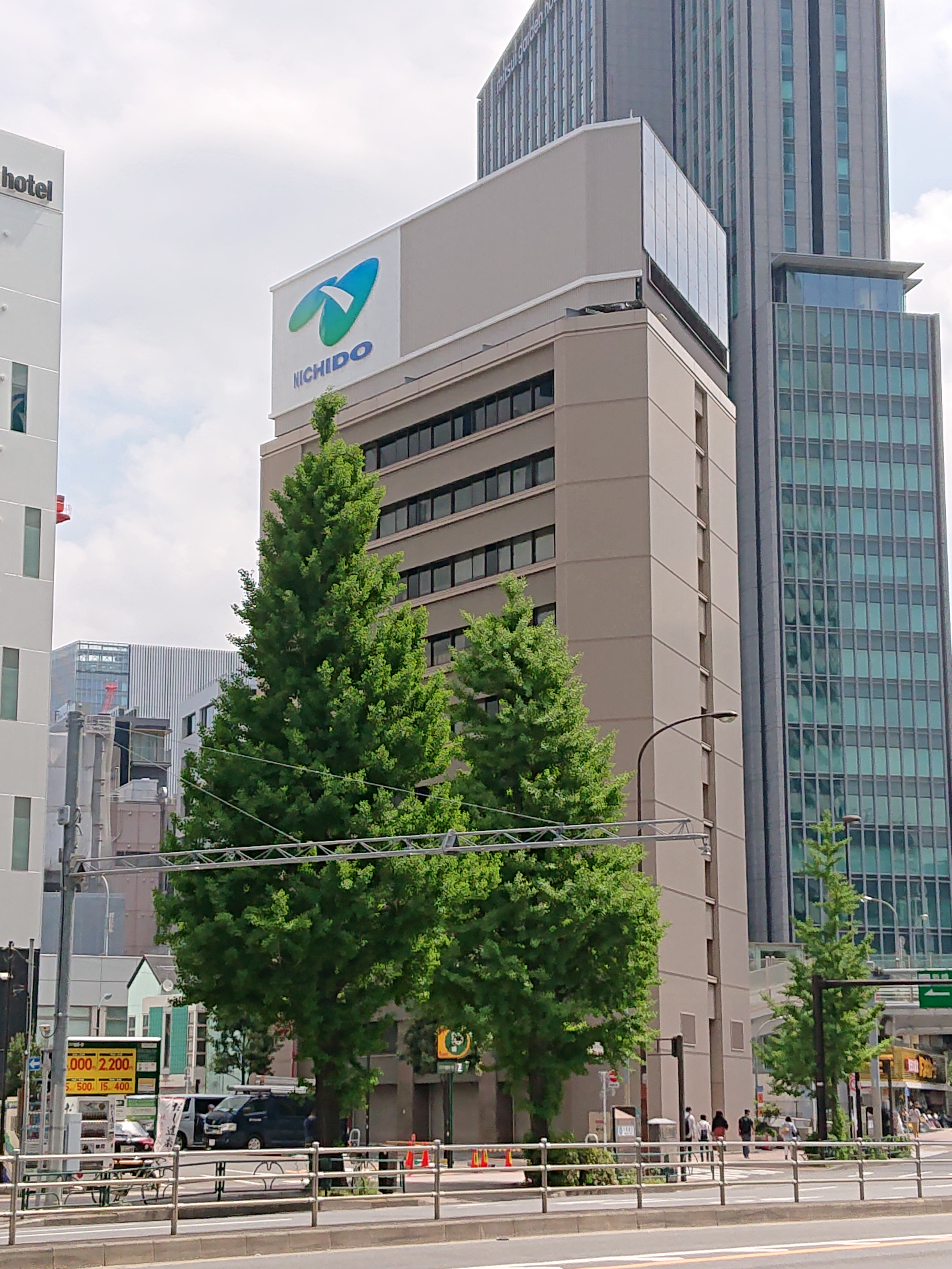 Nippon Road headquarters, at 1-6-5 Shinbashi, Minato, Tokyo, Japan